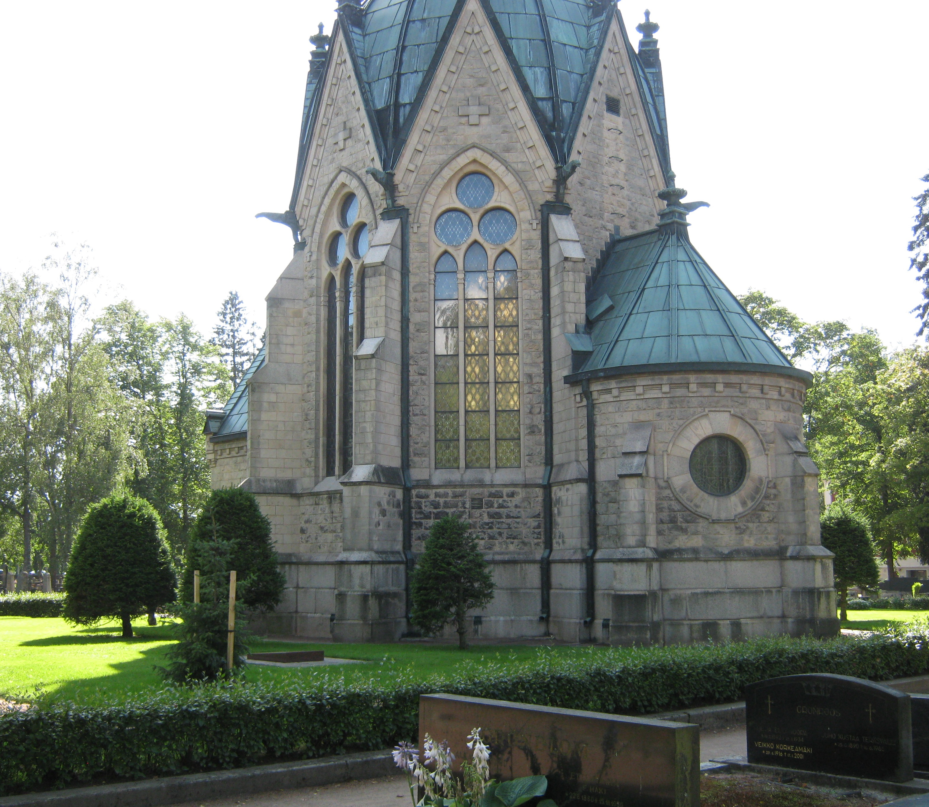 Juselius Mausoleum from behind. Pori, Finland.